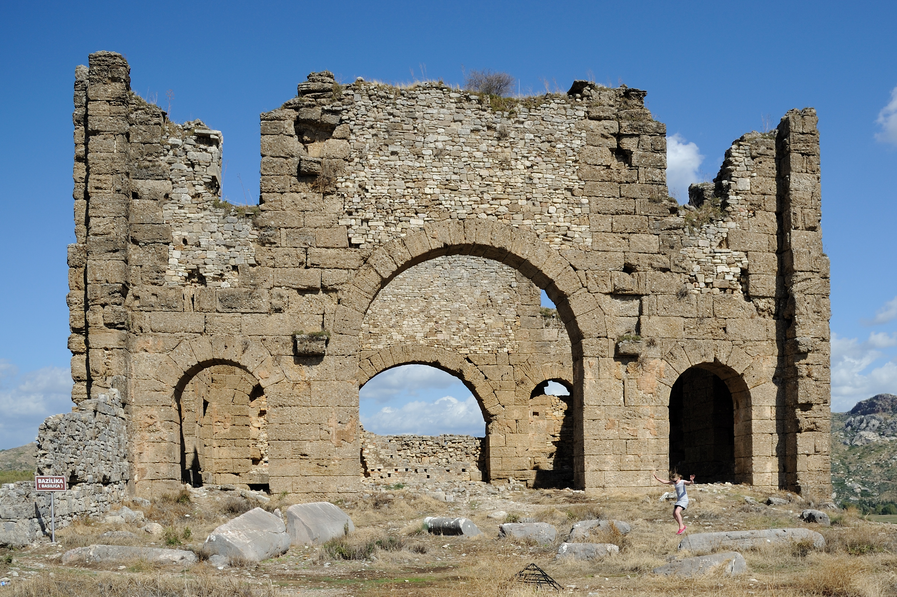 Aspendos or Aspendus (Greek Άσπενδος) was an ancient Greco-Roman city in Antalya province of Turkey. It is located 7 kilometres (4.3 mi) northeast of central Serik. It is a vast ruin and this picture is just one of several major structures (The Basilica) on the site.